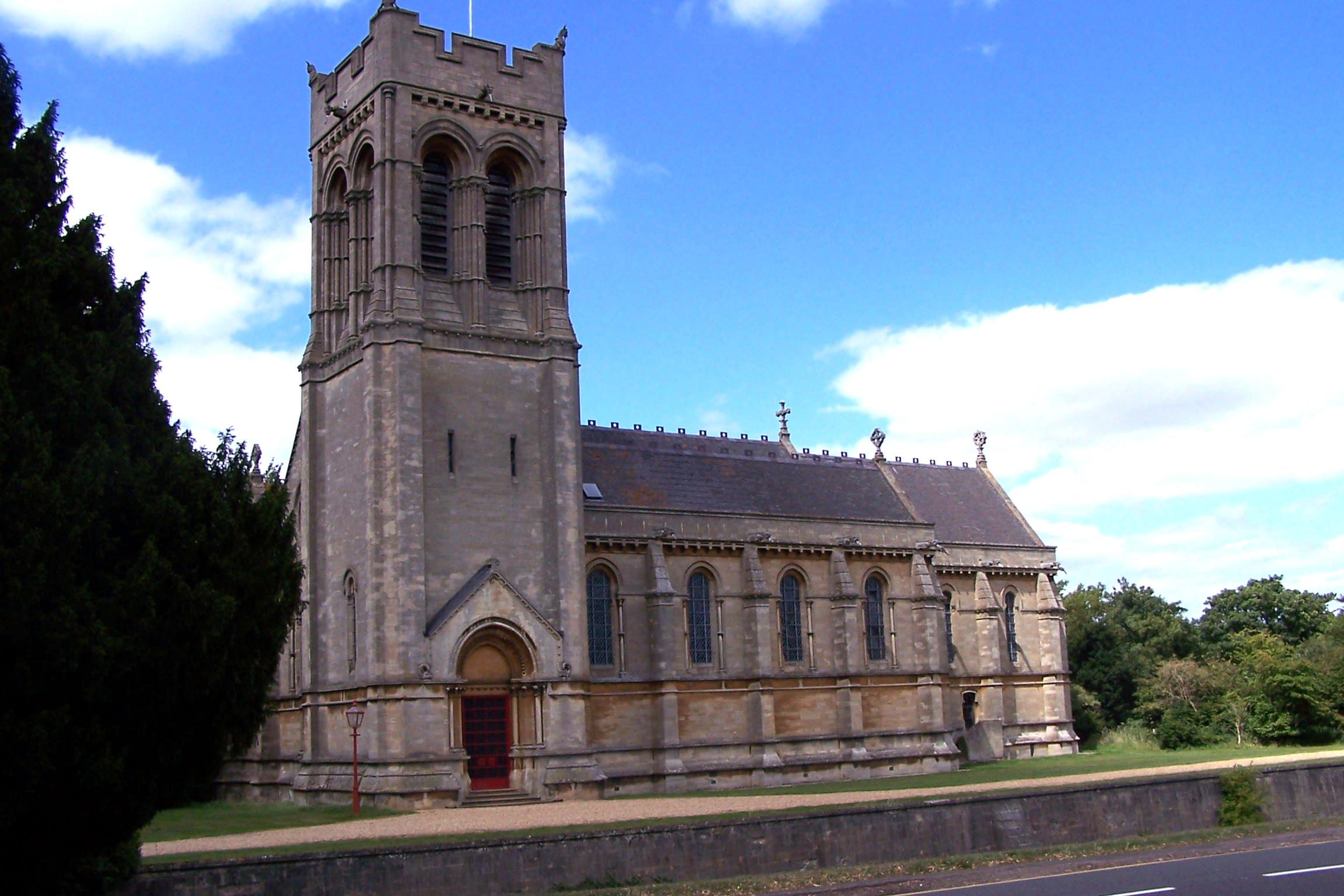 St Mary's new parish church, Woburn, Bedfordshire, seen from the south